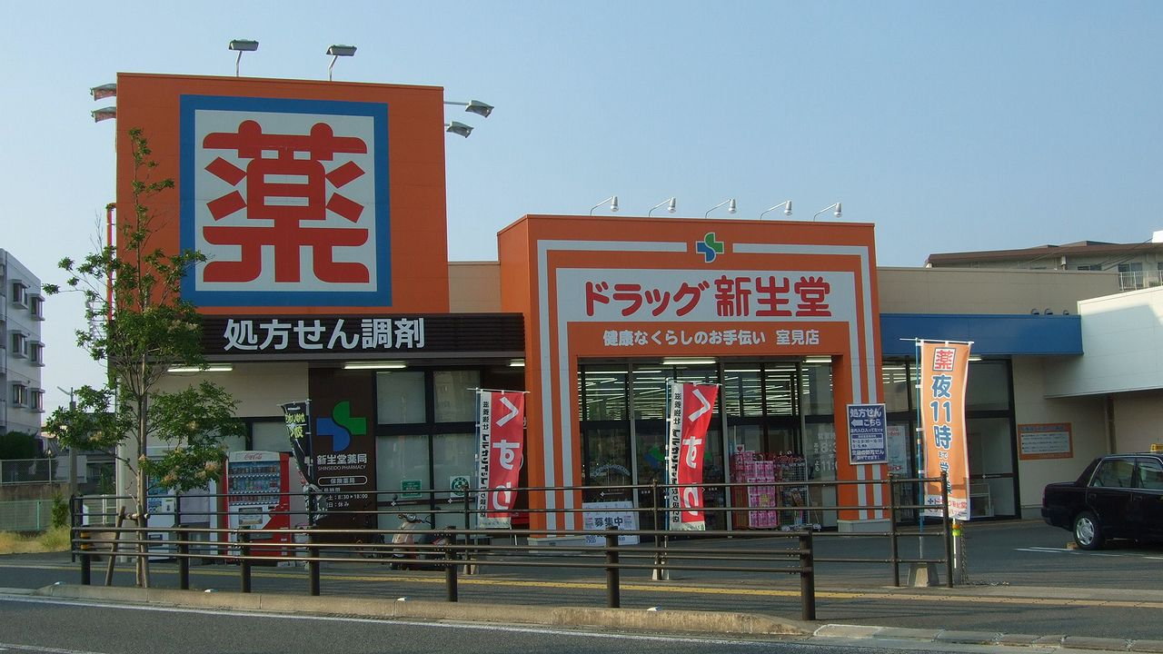 Shinseidoyakkyoku drugstore&pharmacy Muromi Shop, Sawara Ward, Fukuoka City, Fukuoka, Japan.